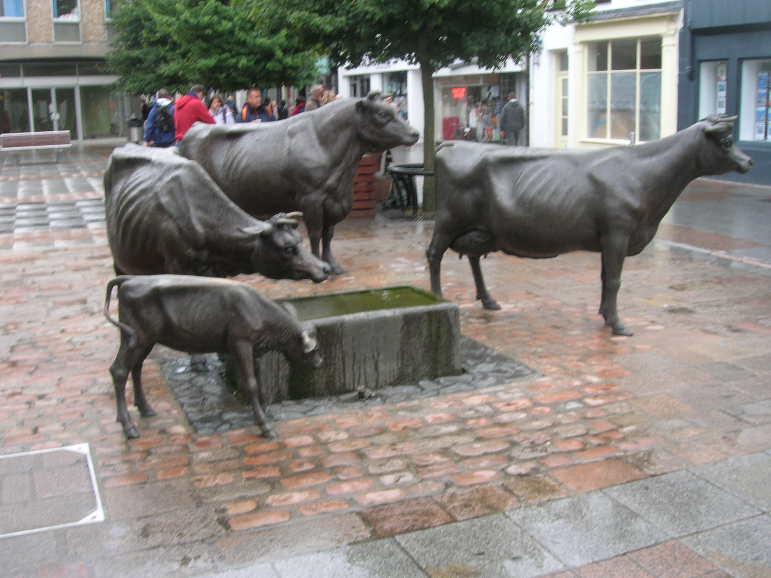 Unveiled 2001. On display at West Center, St Helier, Jersey